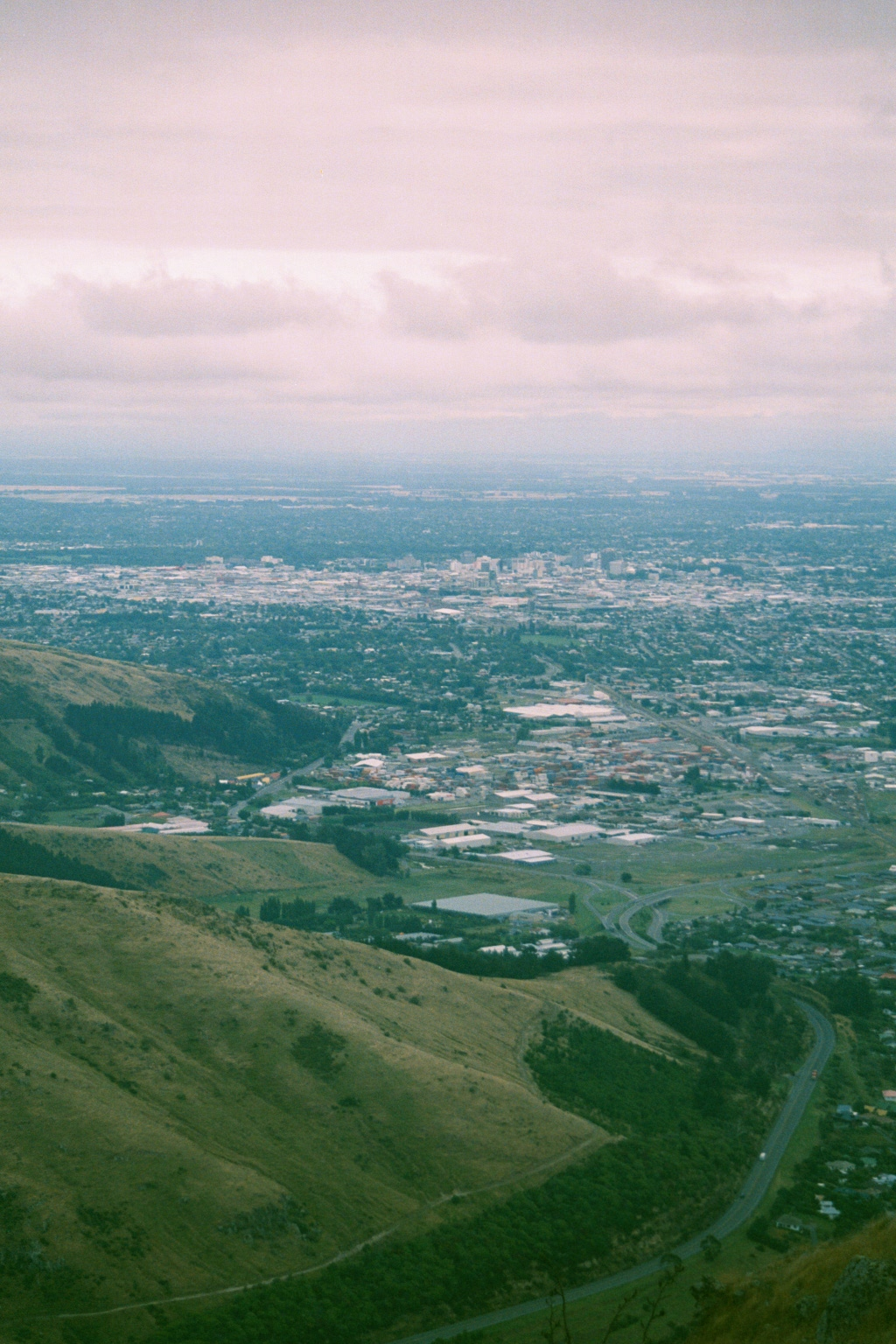 Christchurch, New Zealand, taken from the top of the gondola on the Port Hills. Heathecote Valley is at the bottom right, and the municipalities of Woolston and Hillsborough are between Christchurch and the slopes of the hills. The main road at the bottom is State Highway 74, which goes through the Lyttelton Harbor Tunnel (the entrance of which is just below and to the left of the photo).